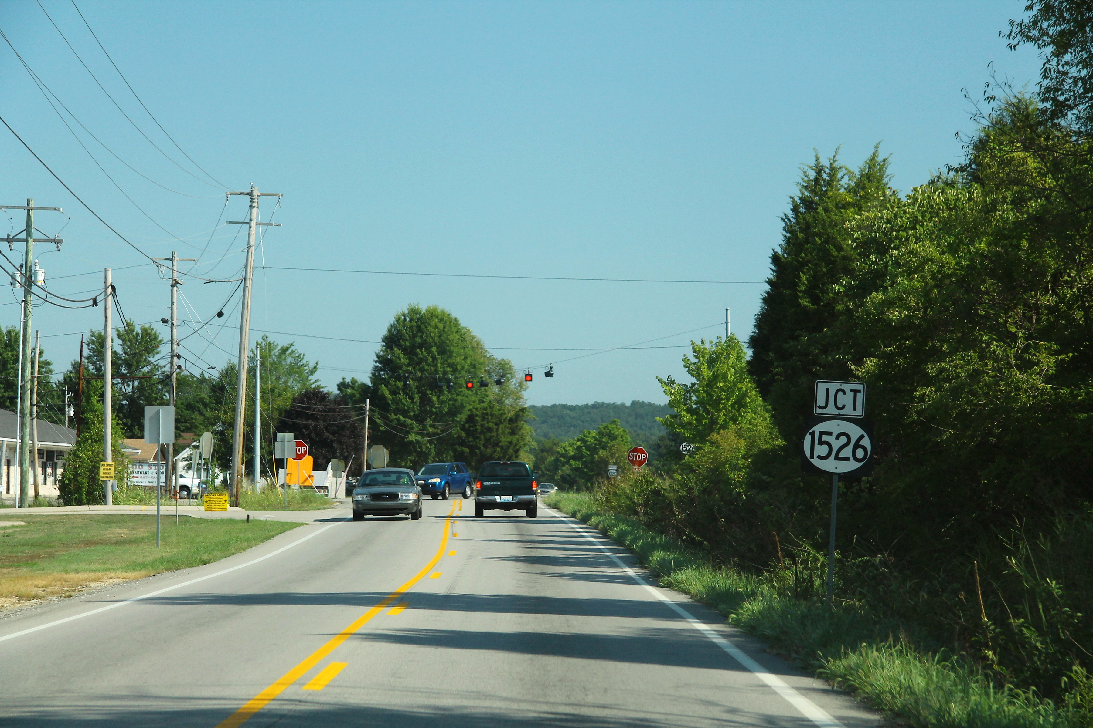 Kentucky Route 1020 approaching Kentucky Route 1526.